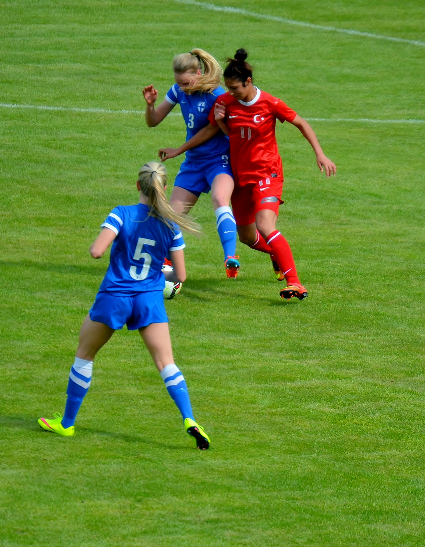 Esra Manya playing for Turkey women's U17